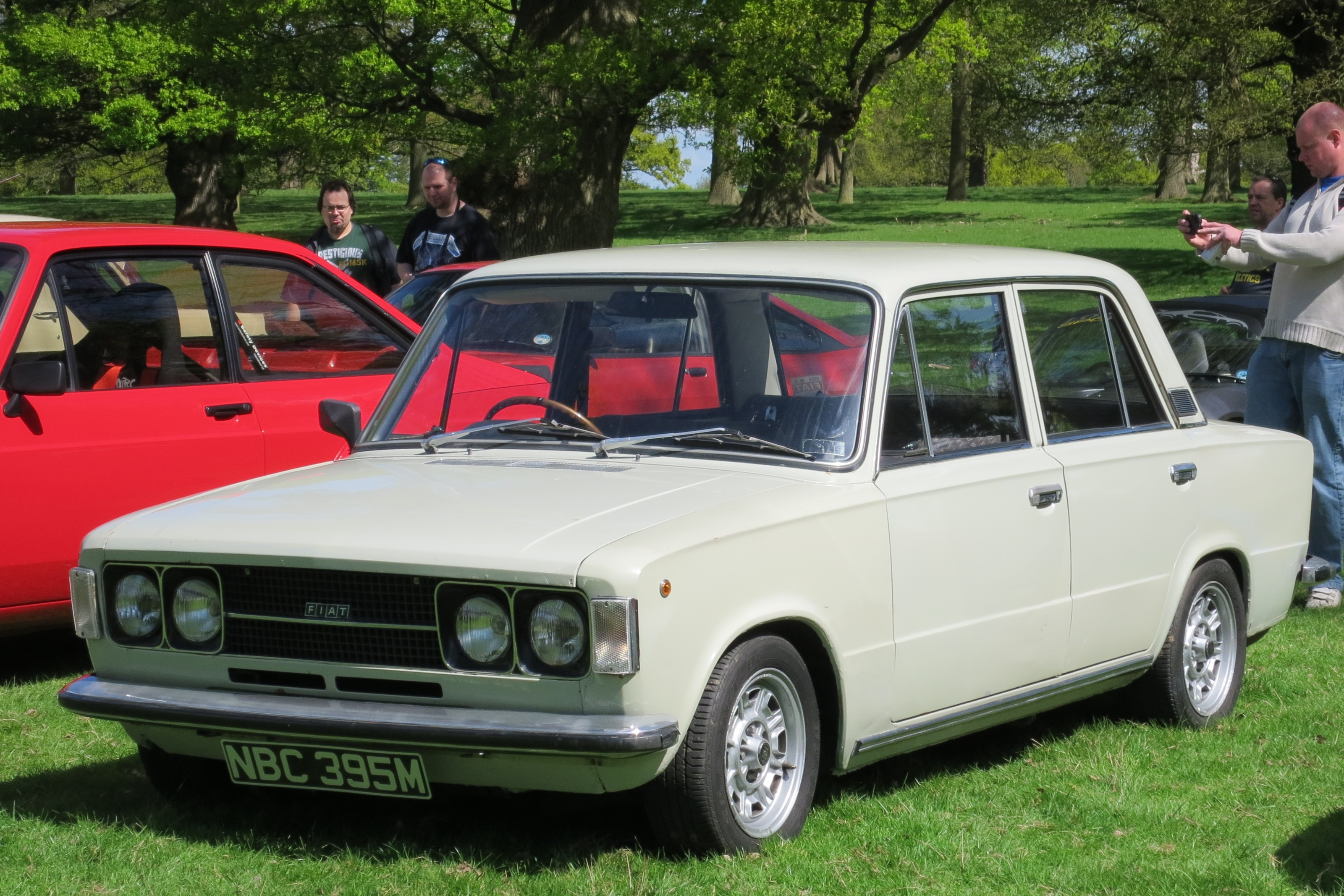 Fiat 124 (1973) at Woburn (2015)